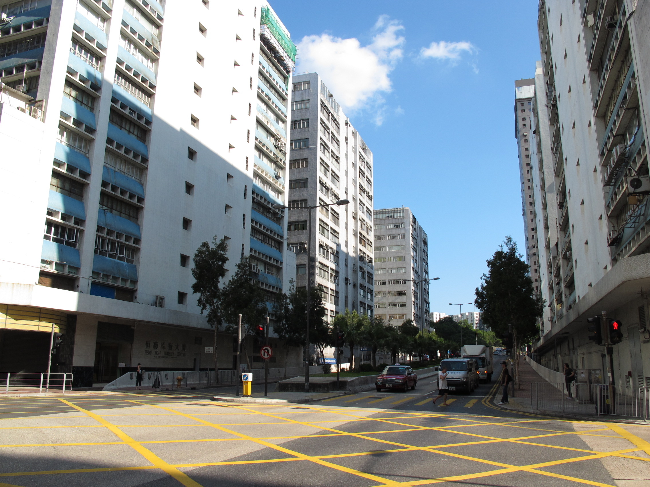 Hung Hom Road Industrial Area